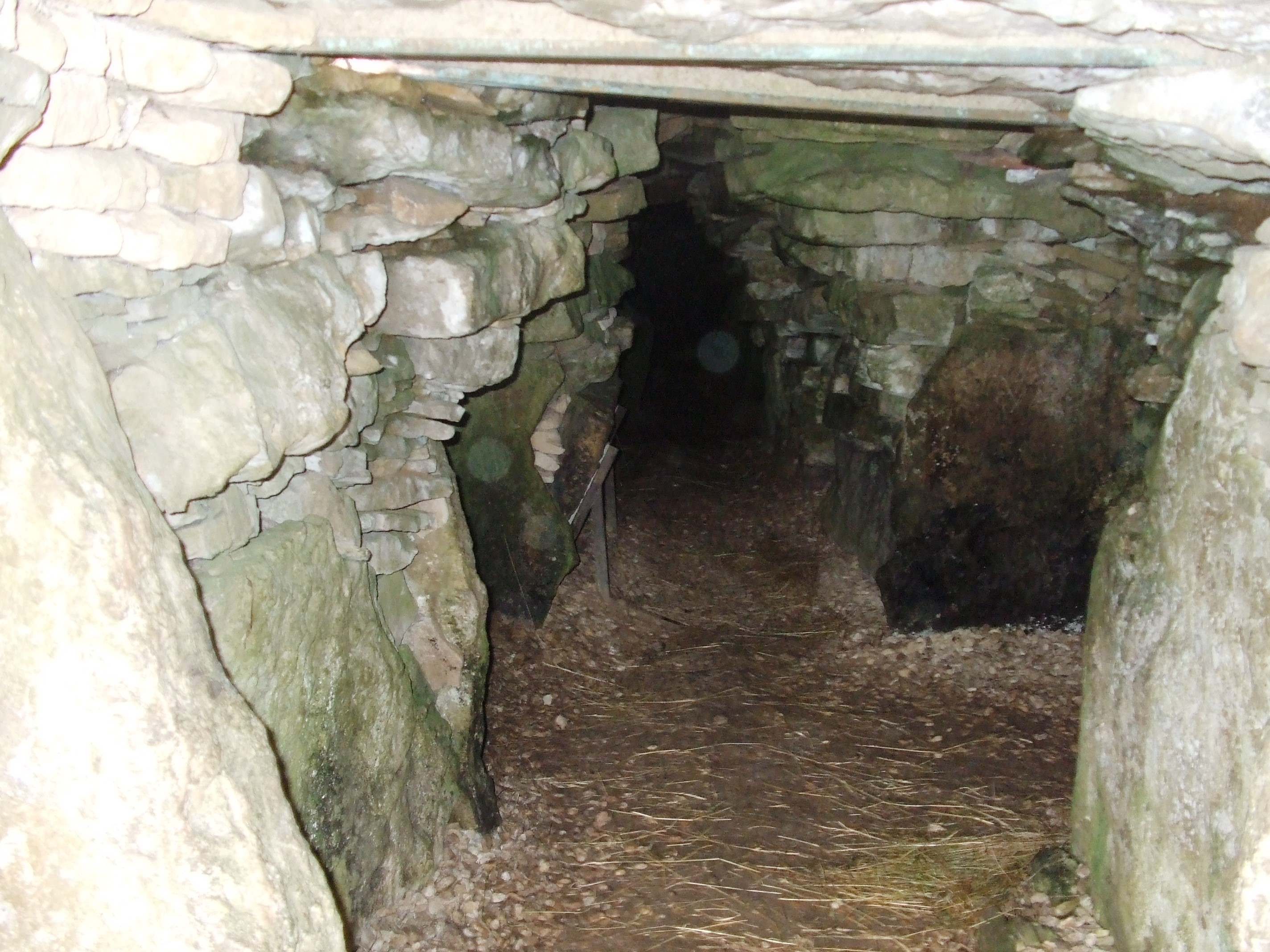 Interior of Stoney Littleton Long Barrow